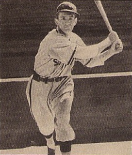 Former St. Louis Browns second baseman Don Heffner.